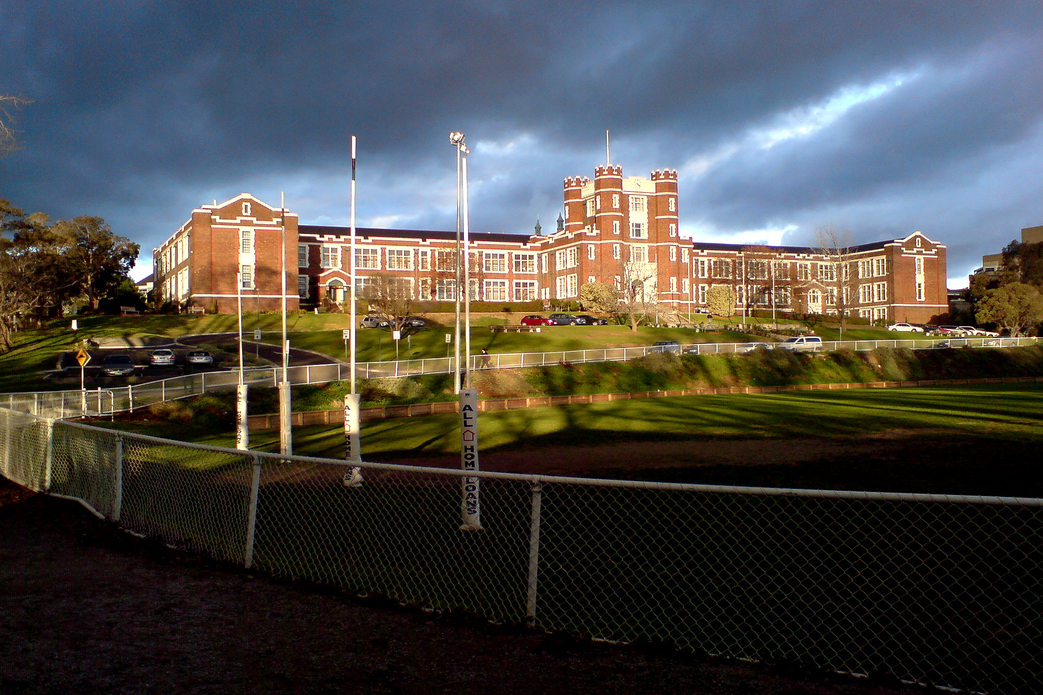 Image of Melbourne High School, Melbourne, Victoria, Australia, in 2007.